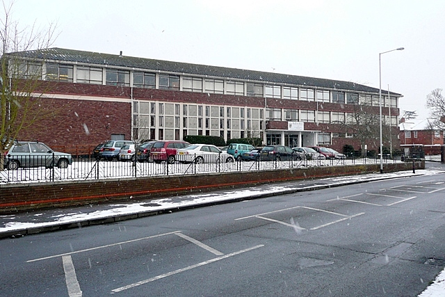 Elvian School One of two main schools along this section of Southcote Lane. This was formerly Presentation College, until 2004. The full history is here Presentation_College,_Reading